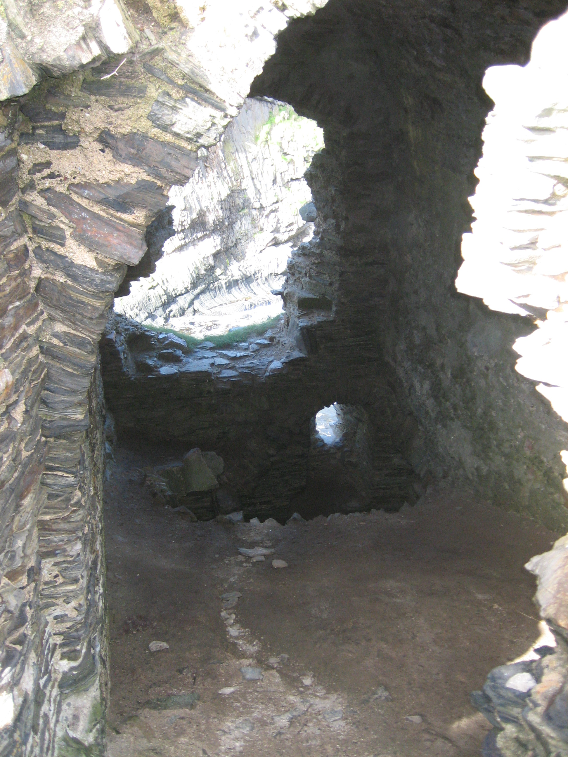 The ruins of Findlater Castle in Moray, Scotland